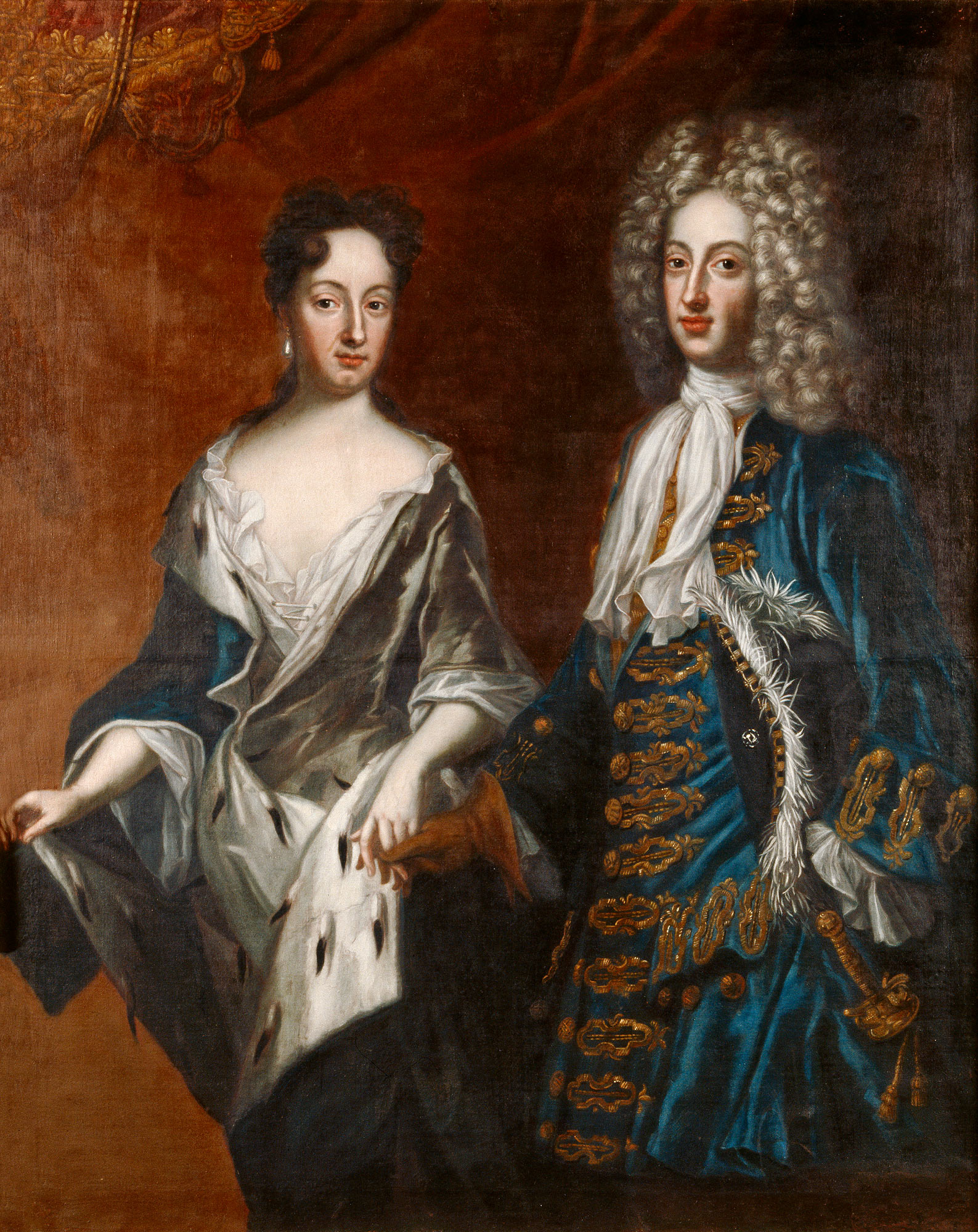 Fredrik IV of holstein-gottorp, born 1671, dead 1702 Princess Hedvig Sofia, Swedish, born 1681, dead 1708